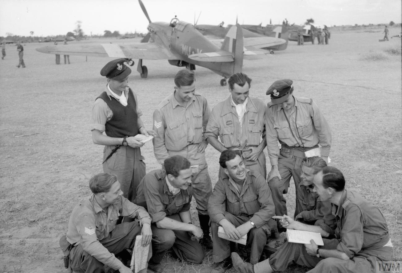 Air Ministry Second World War Official Collection. Squadron code MU on fuselage and white identification markings on wings and tail appear to identify this as a Hawker Hurricane of No. 60 Squadron RAF in the Southeast Asia theatre, possibly India or Burma. The man squatting in the middle with wristwatch exposed is Peter Gibson, a cousin of Guy, who moved to New Zealand after the war in 1957 and died 2005. He is survived by son Martin and daughter Angela (Low).